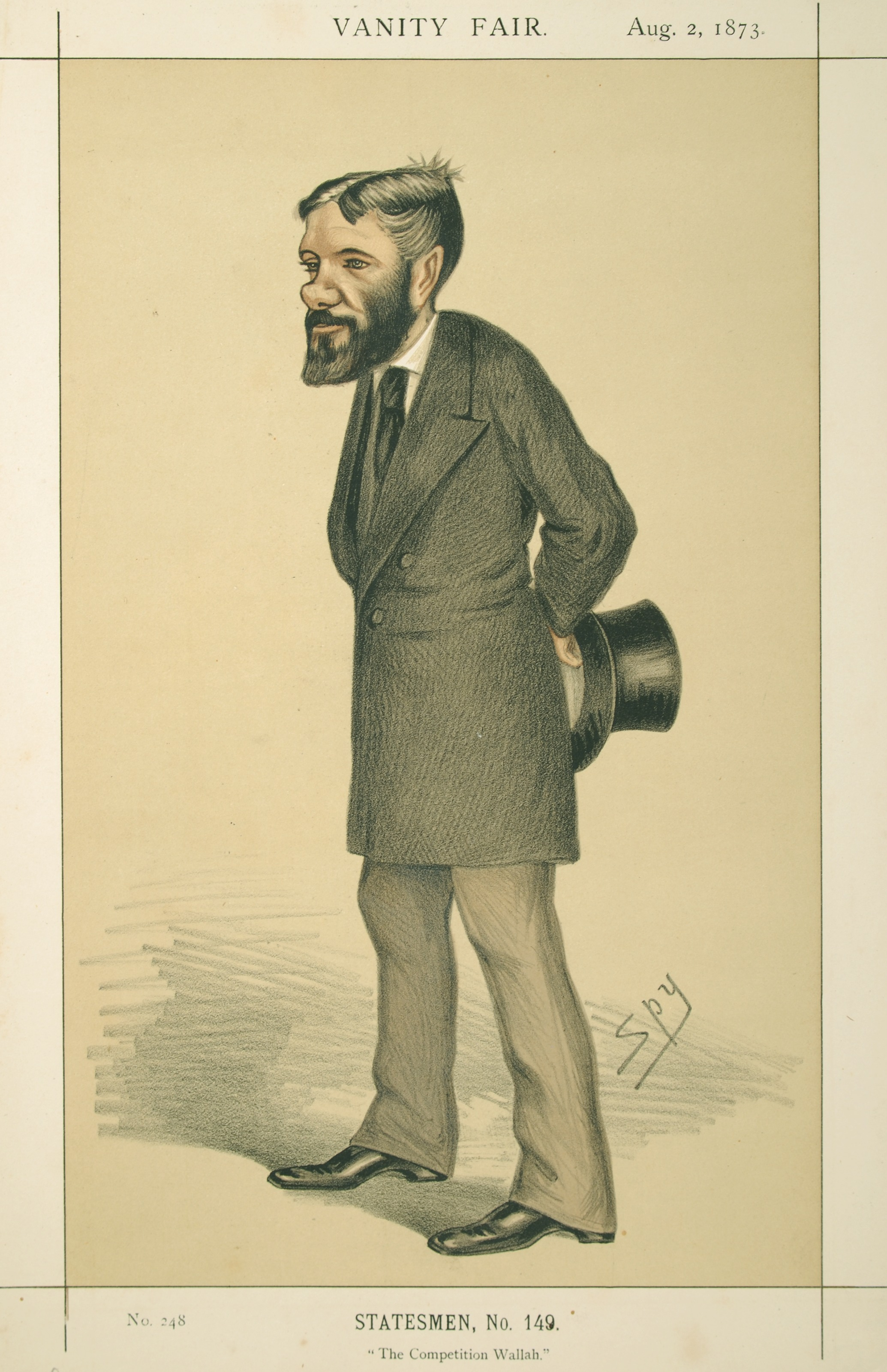 Statesmen No.149: Caricature of Mr George Otto Trevelyan MP. Caption reads: "The Competition Wallah"